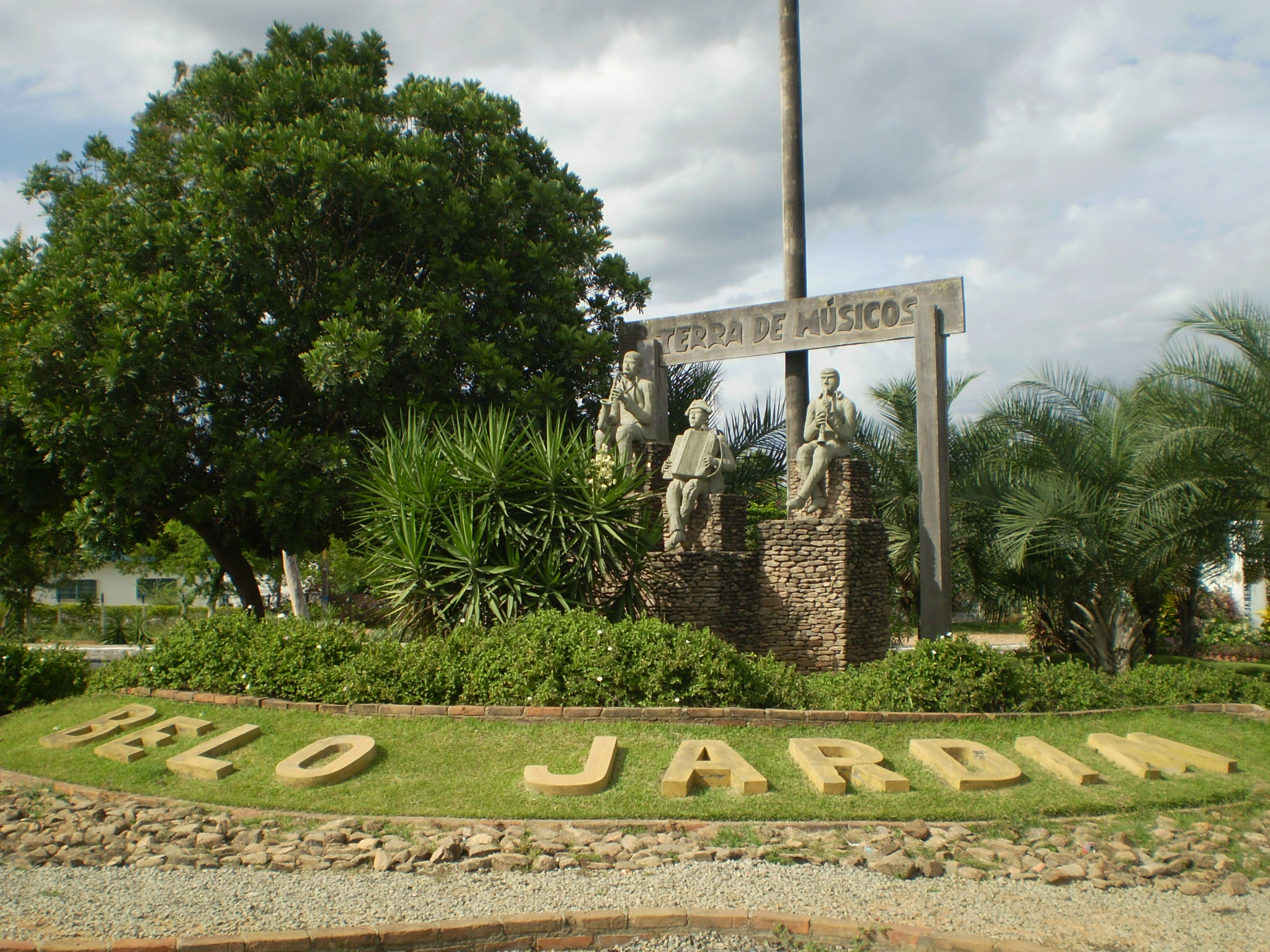 Check the city of Belo Jardim